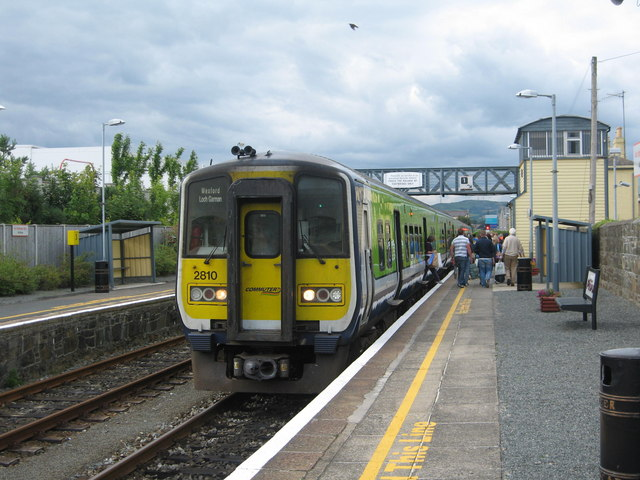 Railcar at Arklow railway station